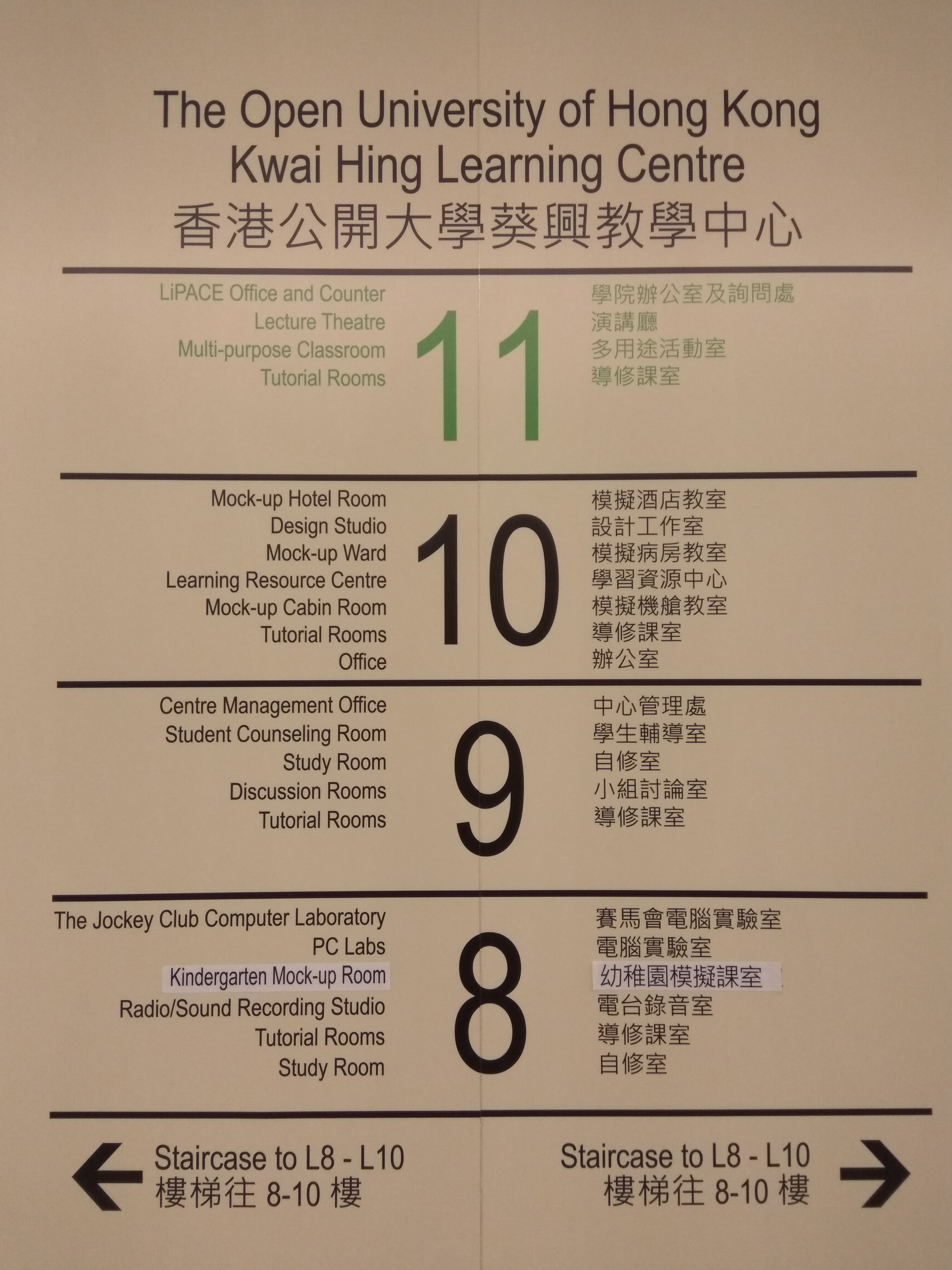 Kwai Hing Campus's Lift Lobby.